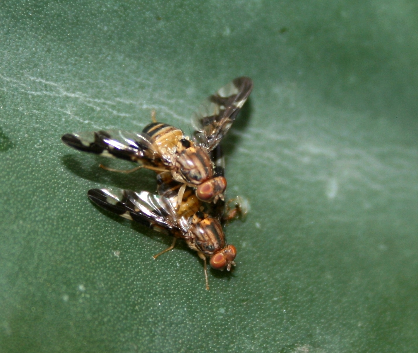 Mating Afrocneros mundus pair at De Wildt 4x4 Game Park. They were perched on a species of Euphorbia, but their biology is associated Cussionia.